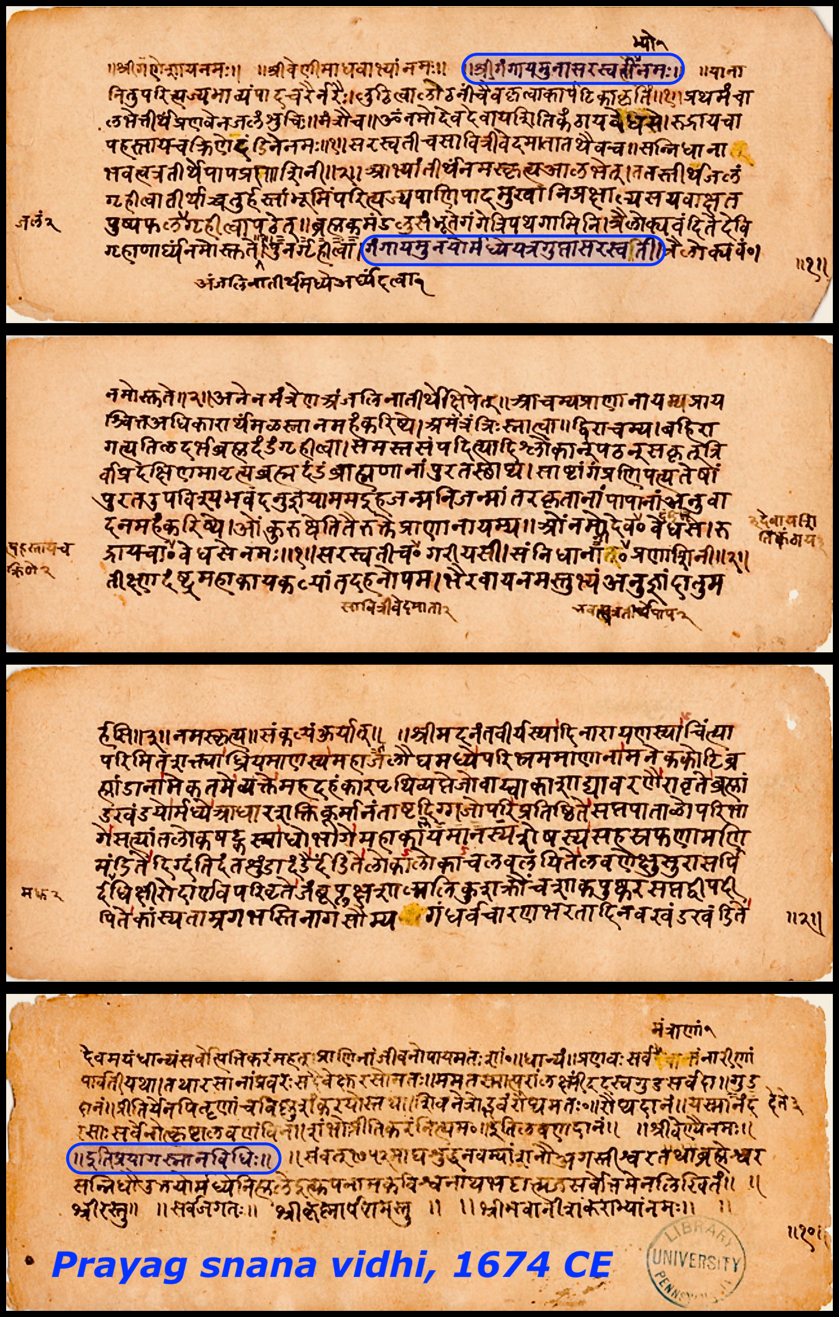 Prayag snana vidhi (lit. "guide to bathe at Prayag") and Prayag mahatmya (lit. "glory of Prayag") are chapters found in the Puranas-genre of Sanskrit texts. These describe the legend of sangam (confluence) of three rivers: Ganga, Yamuna and the underground hidden Sarasvati at a place they call Prayag. It has been an ancient site of Magha mela, that grew to be a center of the world's largest Hindu pilgrimage and gathering in January every 12 years in the 19th-century. By early 21st-century, with the convenience of modern transport, an estimated 100 million pilgrims reportedly gathered over 55 days around January for the Kumbh mela. The "blue highlighted" parts in the top section mention the rivers Ganga, Yamuna and Sarasvati, while the bottom section's highlighted sentence states "this is Prayag Snana Vidhi". The above is a photo, or illustration purposes, of a few random manuscript pages of a 17th-century manuscript that is archived and preserved at the University of Pennsylvania (Mss Poleman 3324 / UP 140). Penn Library holds the largest number of South Asian manuscripts in North America. The photo above is of a 2D pages of a manuscript that was published in 1674 CE. Therefore Wikimedia Commons PD-Art licensing guidelines apply. Any rights I have as a photographer is herewith donated to wikimedia commons under CC 4.0 license.